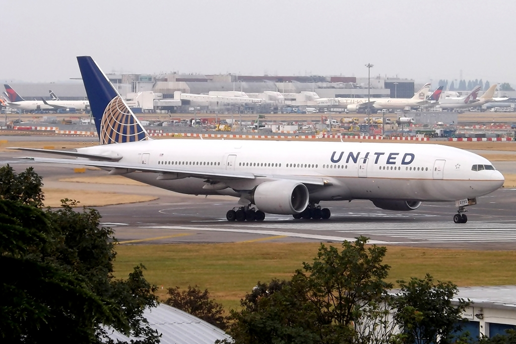 N792UA Boeing 777 United